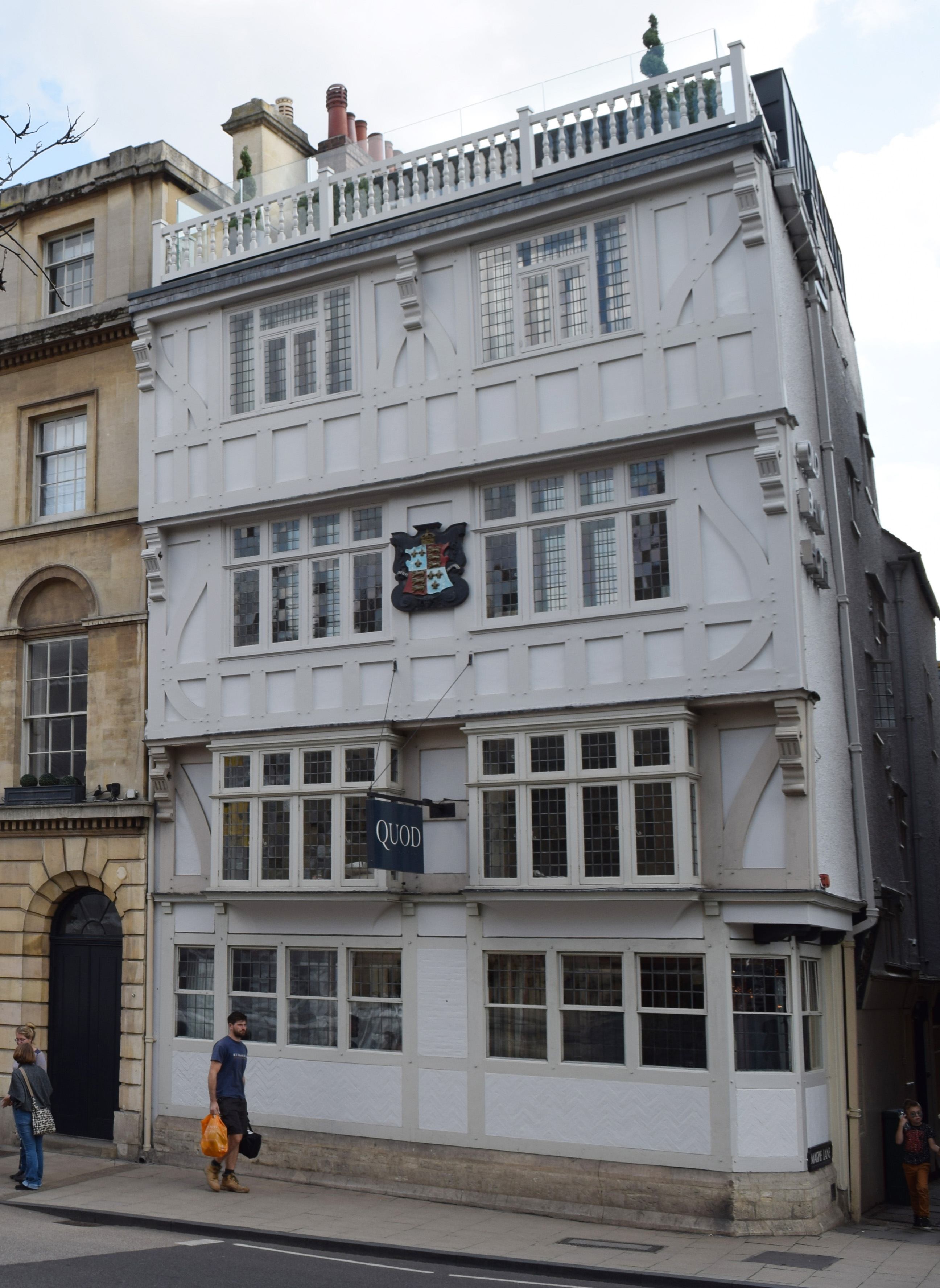 An imitation of a sixteenth-century house: hence the coat of arms of Queen Elizabeth I between the windows on the upper floor